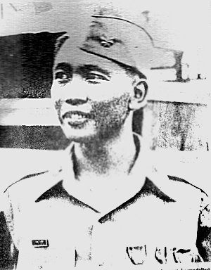 President of the Philippines Ferdinand Marcos during his time as a soldier in the 1940s